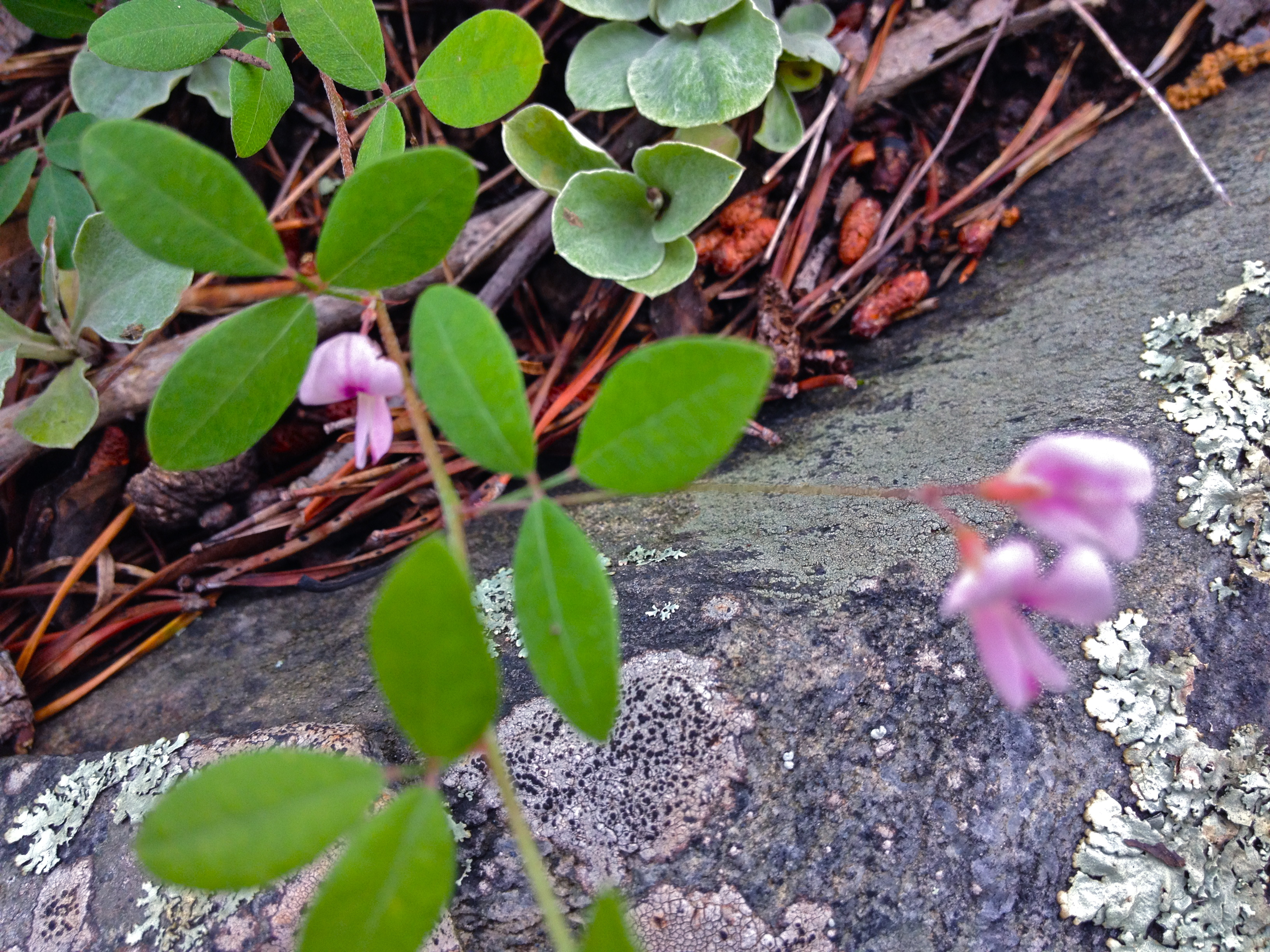 Photo of Lespedeza repens in flower. This is a native plant growing wild in the C & O Canal National Historical Park, Montgomery county Maryland, USA. This species is a member of the Fabaceae family.